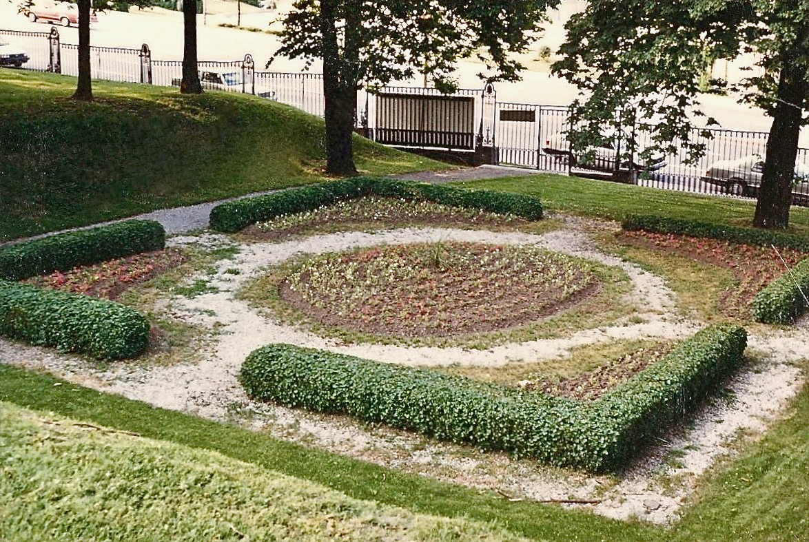 South-East Garden, Château Dufresne, 4040 Sherbrooke Street East, Montreal, Quebec, Canada.